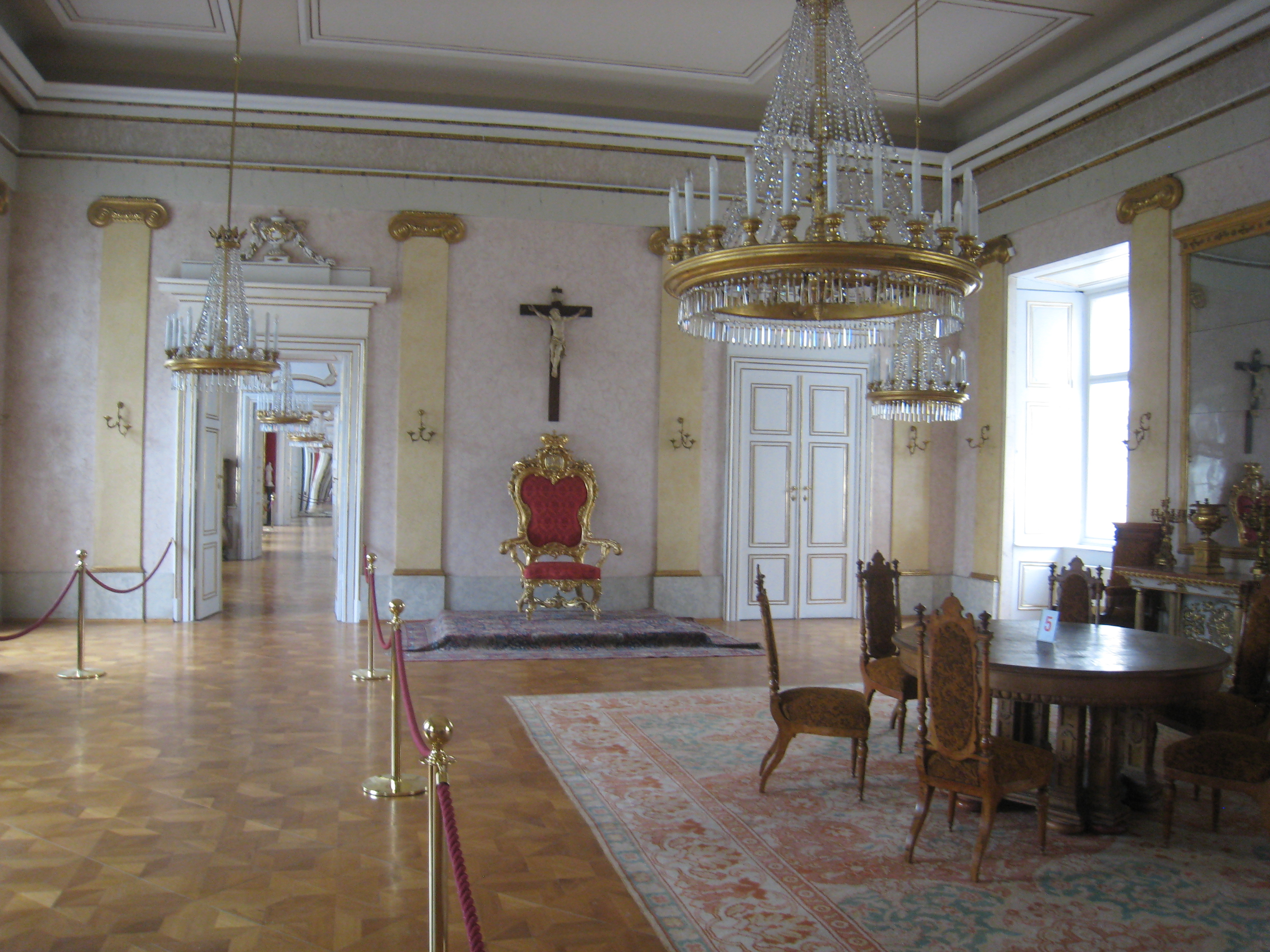 Throne room in the Archbishop's Palace in Olomouc.